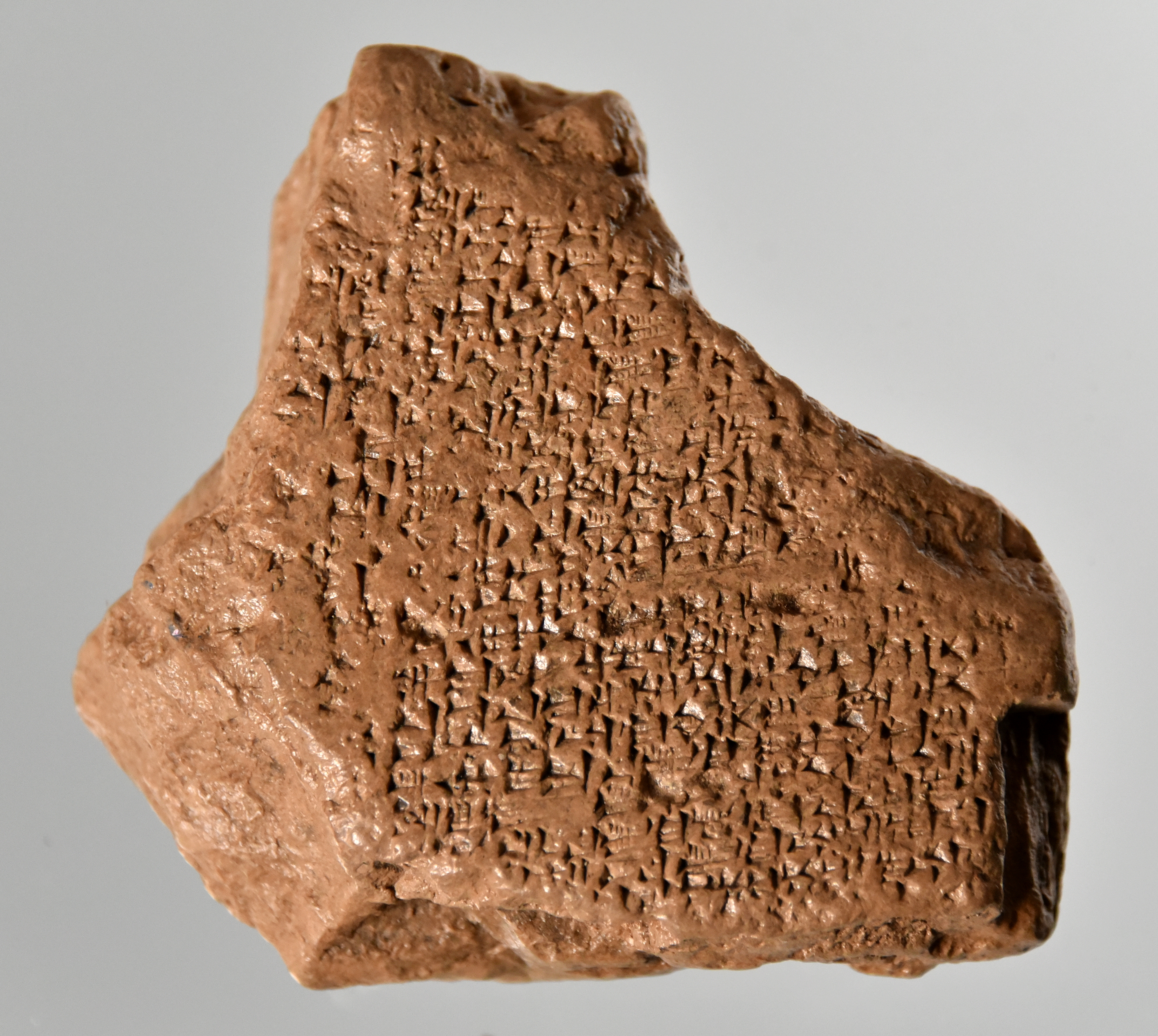 Fragment (obverse) of Tablet II of the Epic of Gilgamesh. Old-Babylonian period, 2003-1595 BCE. Purchase, 2013. From southern Iraq; precise provenance unknown. Not on display. The Sulaymaniyah Museum, Iraqi Kurdistan.